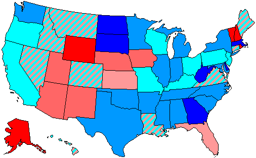 Summary of party control of U.S. house seats in the 101st United States Congress following election. Stripes indicate a tie between two or more parties. Legend: 80.1-100% Democratic seat majority 60.1-80% Democratic seat majority 60% or less Democratic seat plurality 60% or less Republican seat plurality 60.1-80% Republican seat majority 80.1-100% Republican seat majority